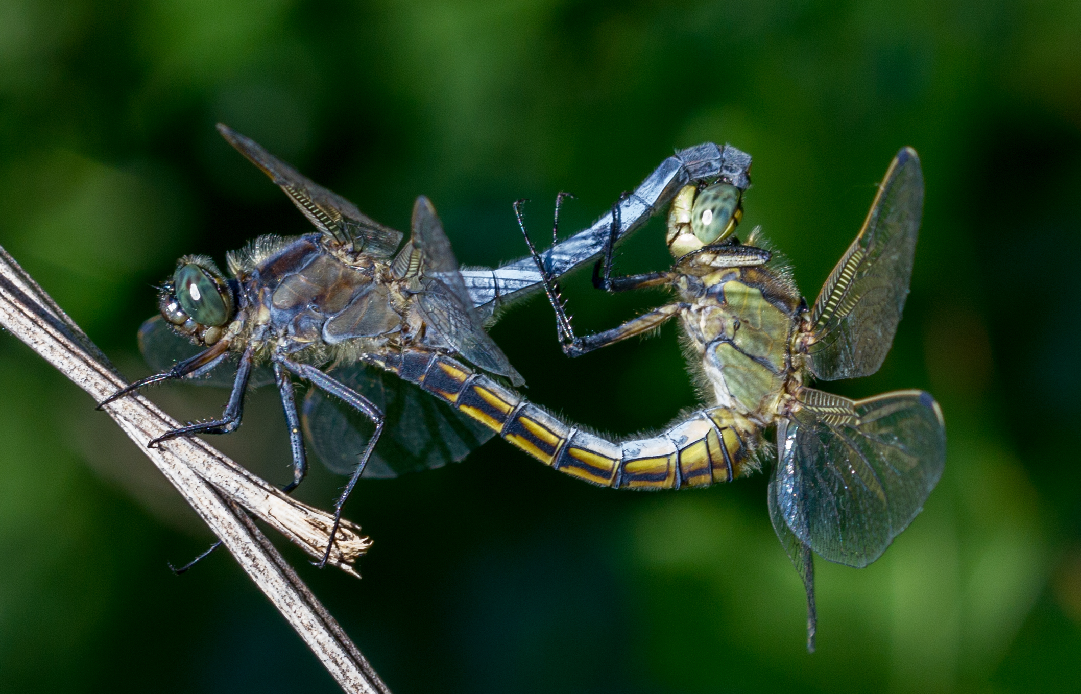 Odonata dragonfly copulation